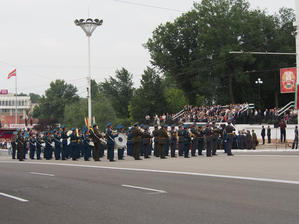 TIraspol Transnistria